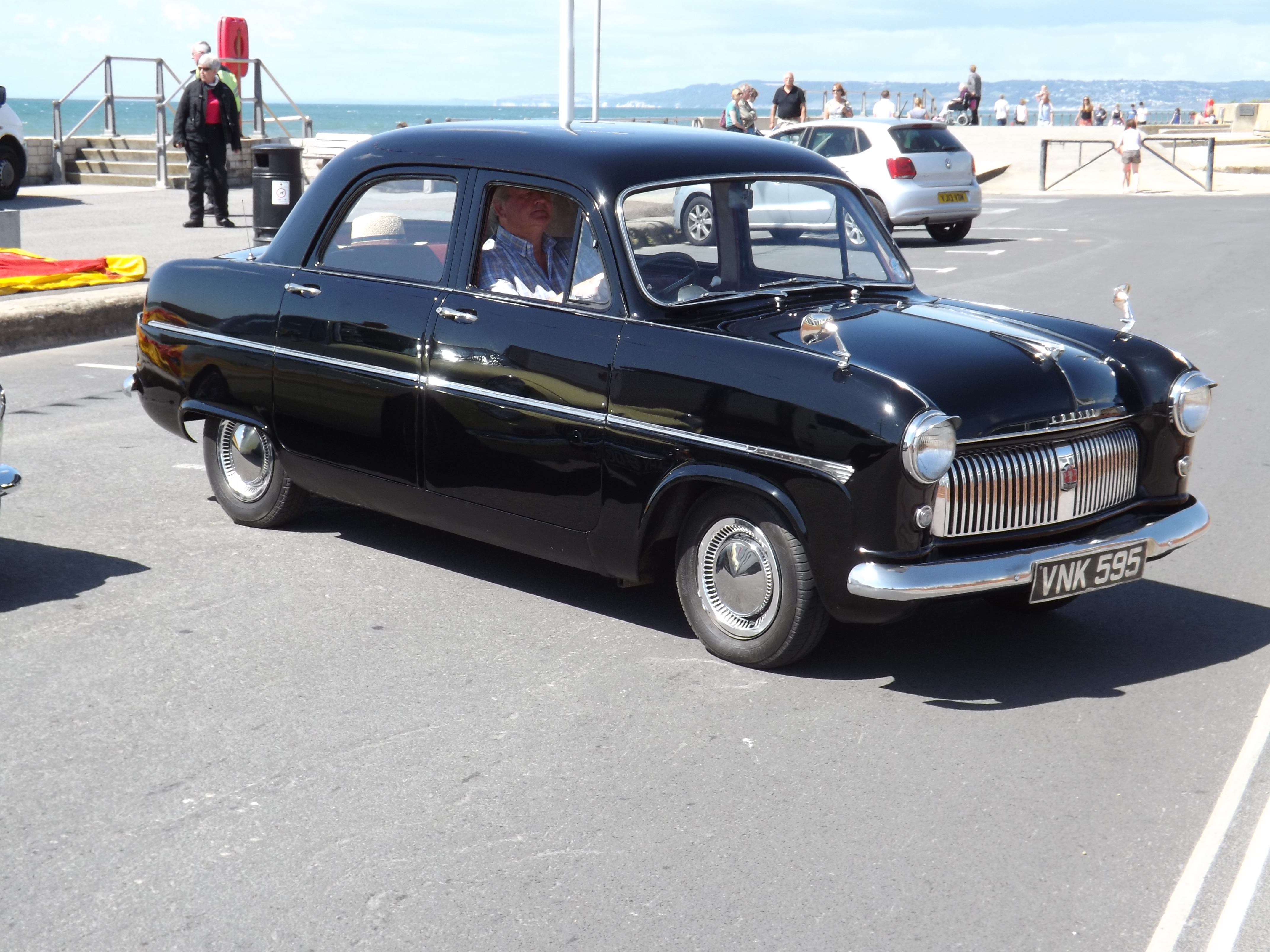 Spotted at West Bay, Bridport, Dorset on Sunday 3rd August 2014. This car is the same age as me!